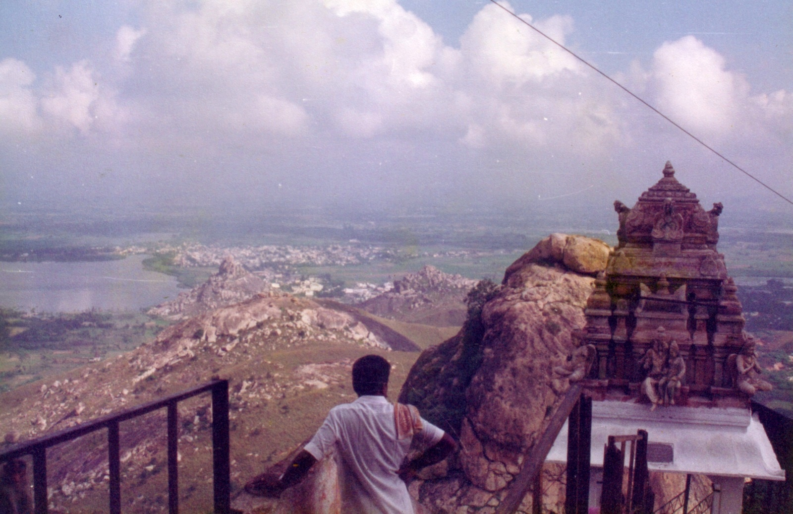 Sholinghur is a famous temple town in Tamil Nadu. Here is a view from the Lakshmi Narasimhaswamy temple atop a hillock, of the other hillocks and the temple town.